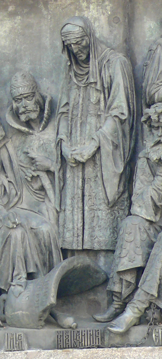 Marfa Boretskaya on the Monument «Millennium of Russia» in Veliky Novgorod